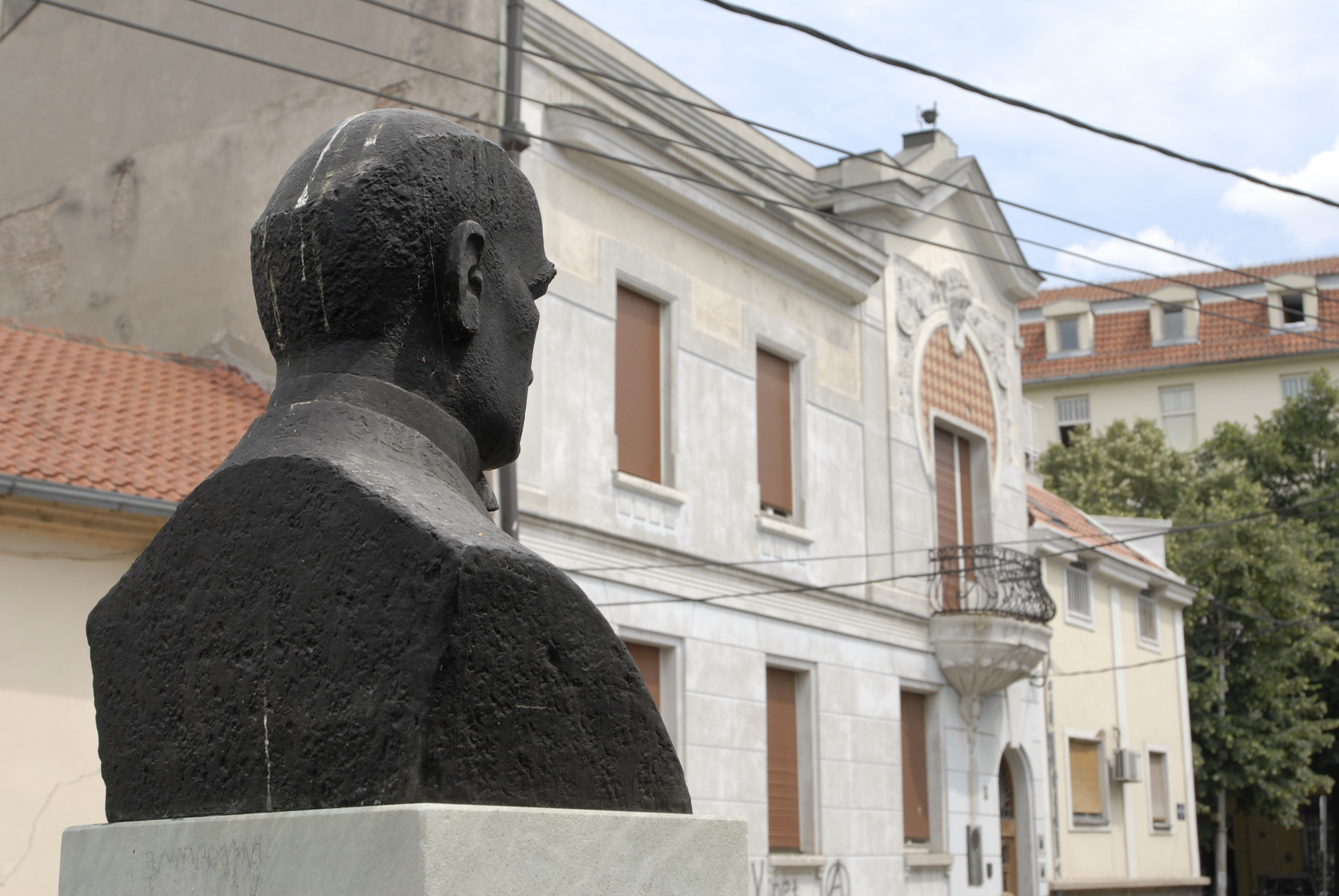 Dom Mike Alasa